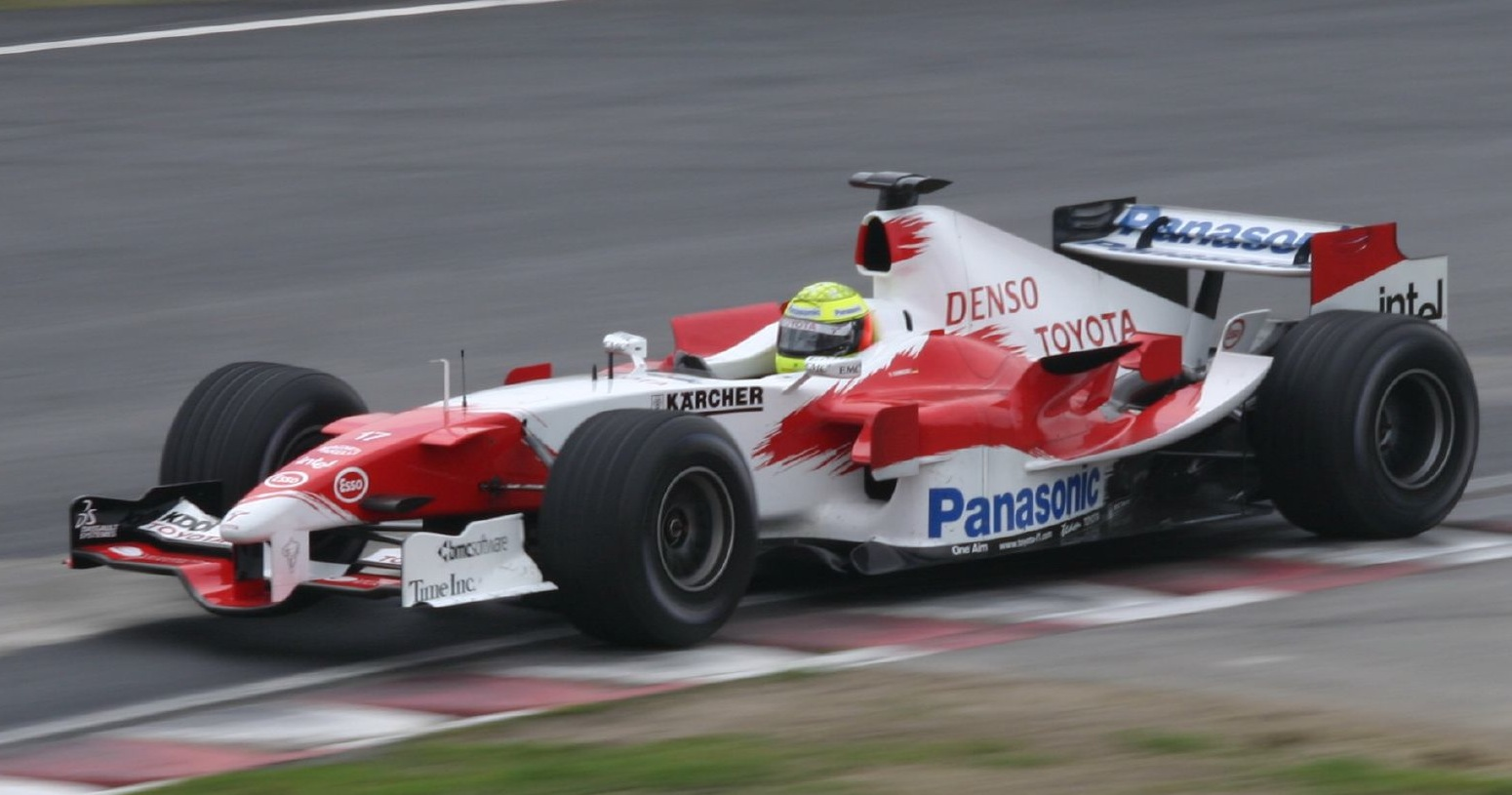 Ralf Schumacher driving for Toyota F1 at the 2005 Canadian Grand Prix.